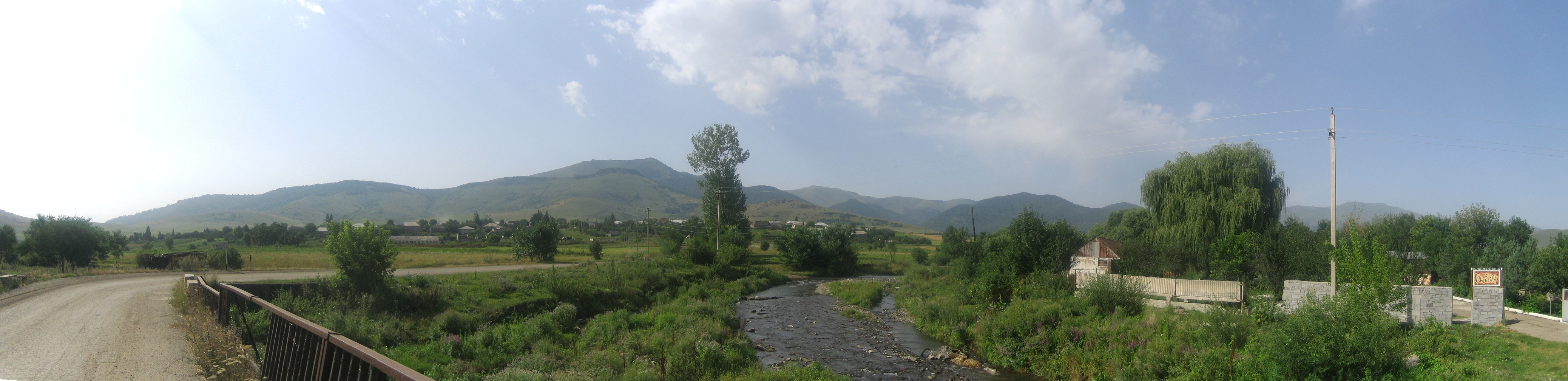 Panorama of the village of Hobardzi in the Lori region of Armenia. The nearest city is Stepanavan about 20 minutes to the west by car.